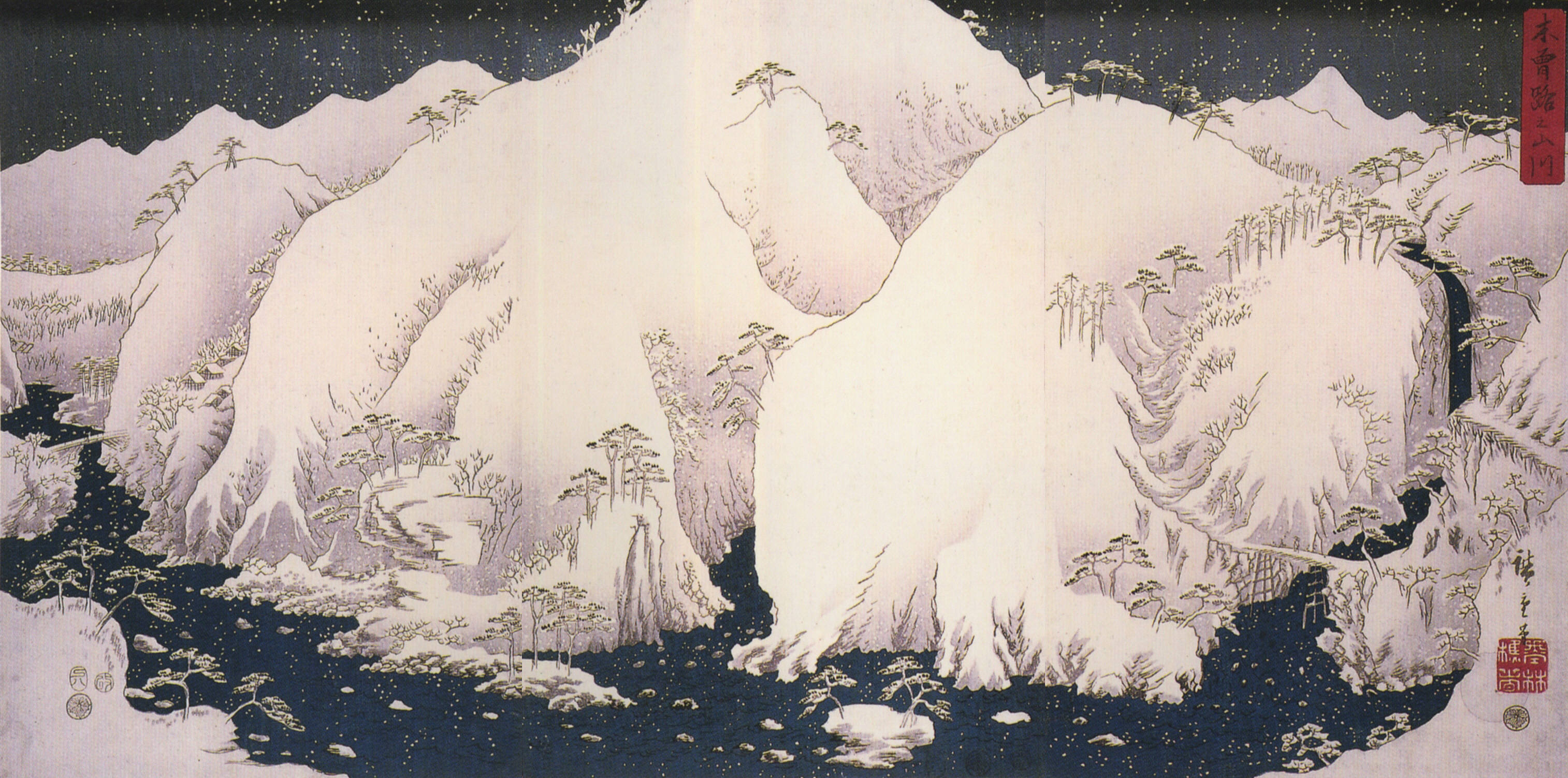 Hiroshige, A river among snowy mountains